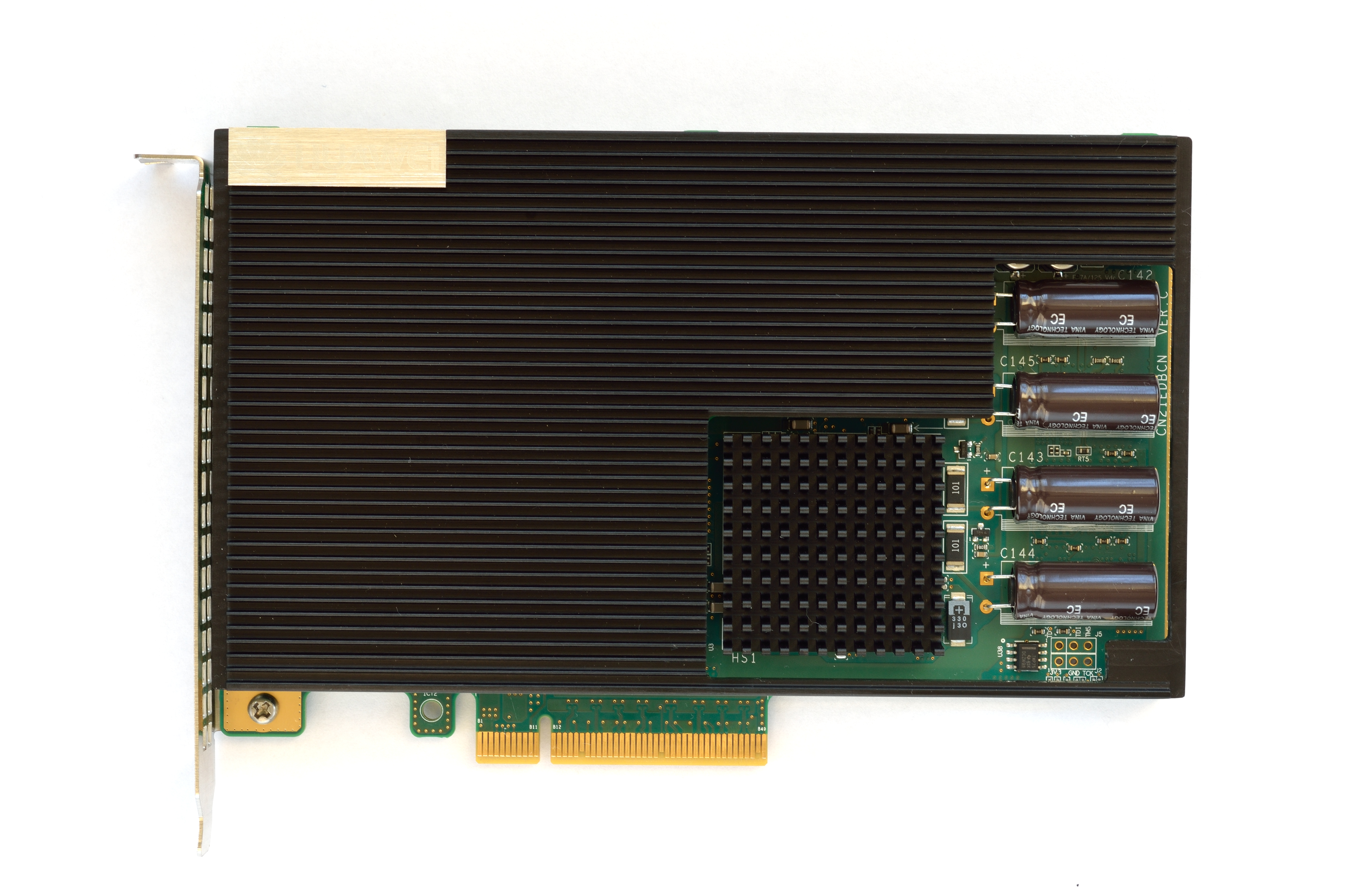 Huawei Tecal ES3000 High Performance PCIe SSD Card with 1.2TB of storage capacity.